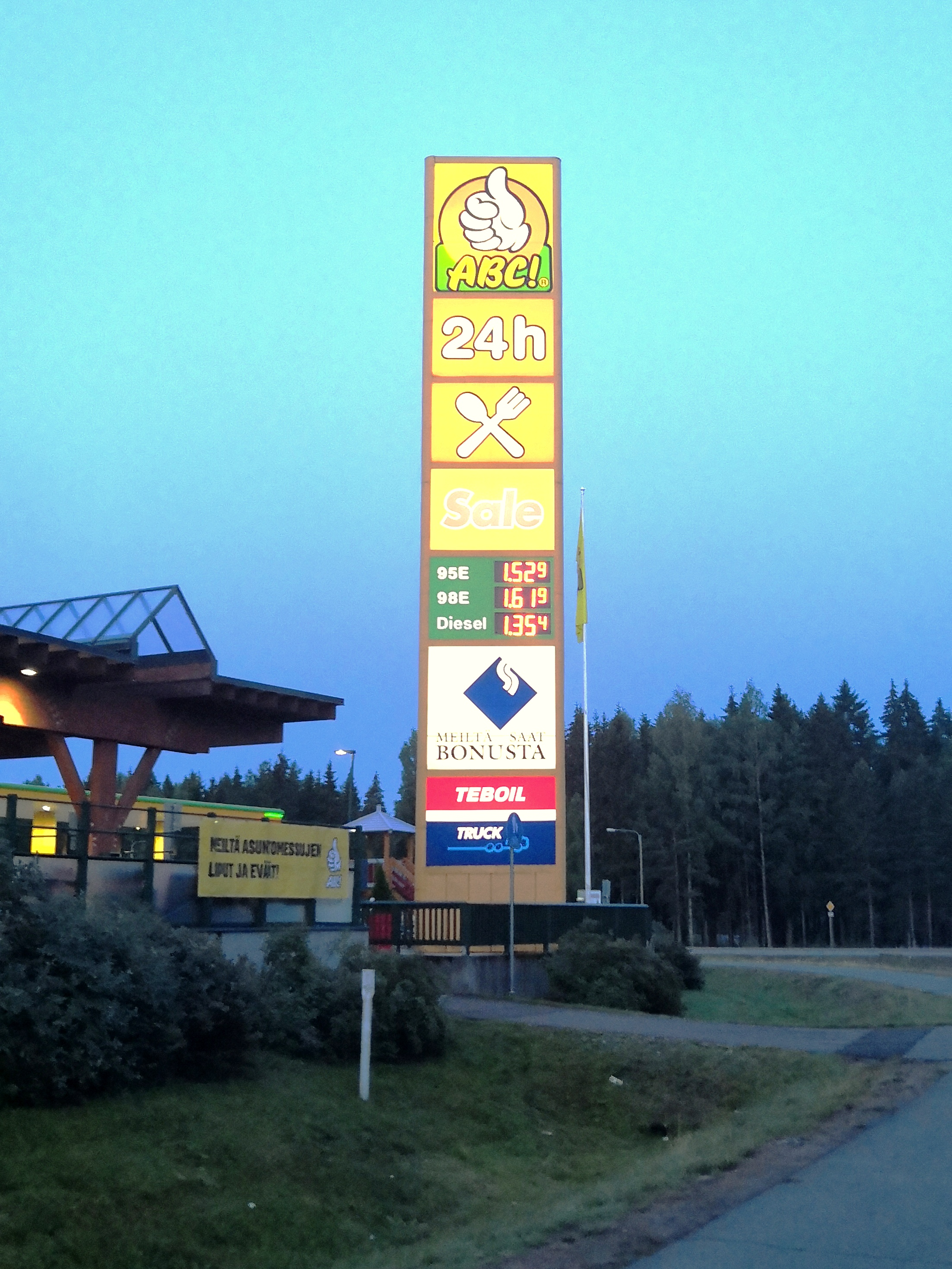 Korian ABC-aseman mainostorni